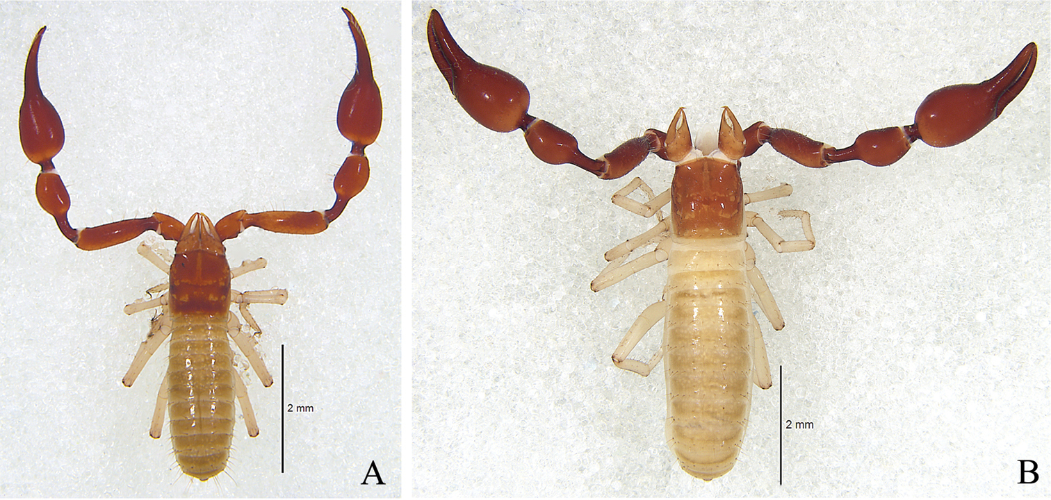 Figure 7; Parobisium qiangzhuang sp. nov. A Holotype male, dorsal view B Paratype female, dorsal view.